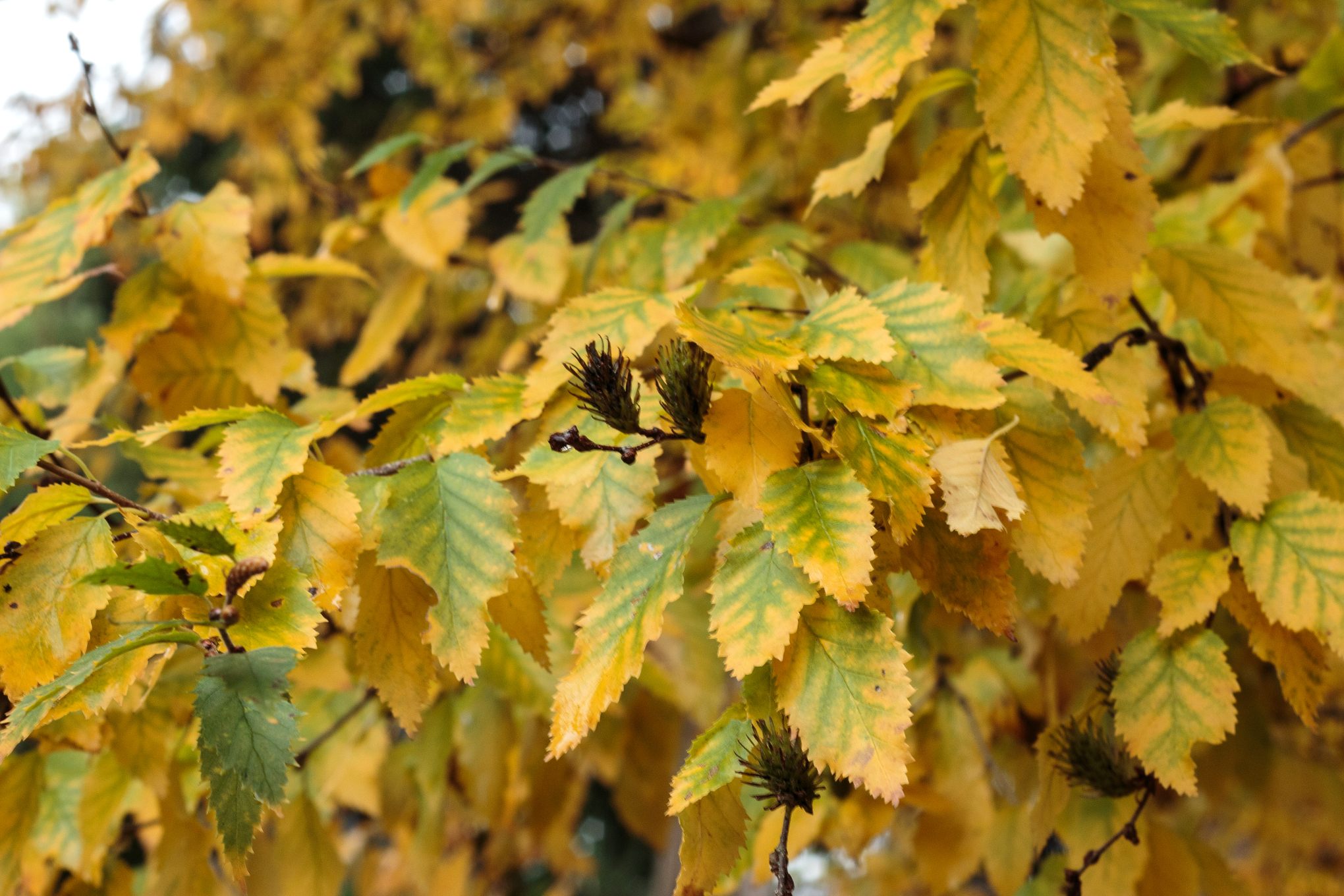 Betula chinensis: Ripened fruits (catkins)